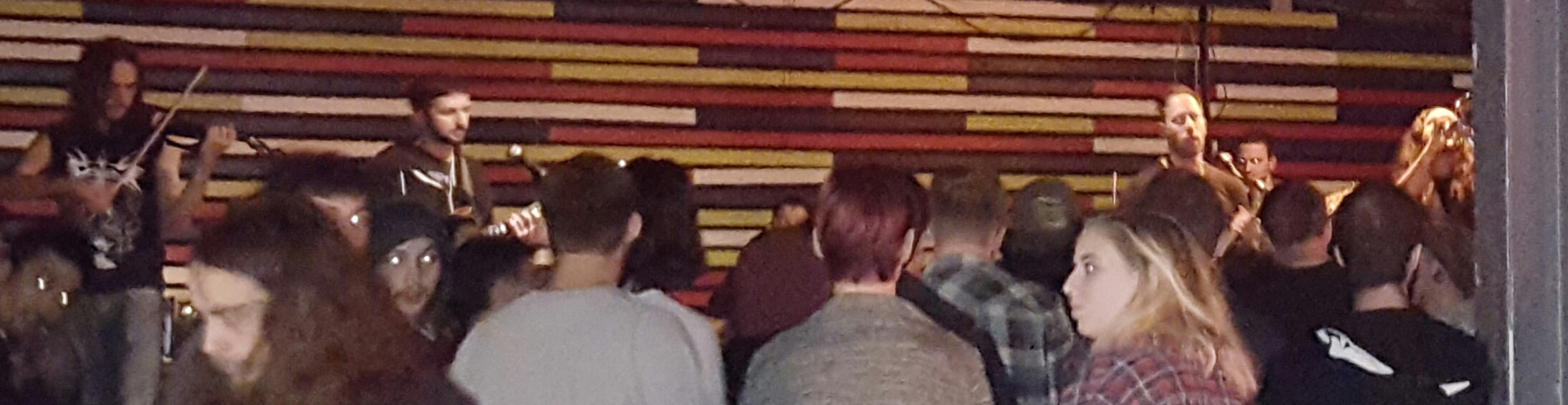 Thank You Scientist photographed in Montreal, Quebec, Canada at the Bar Le Ritz PDB.